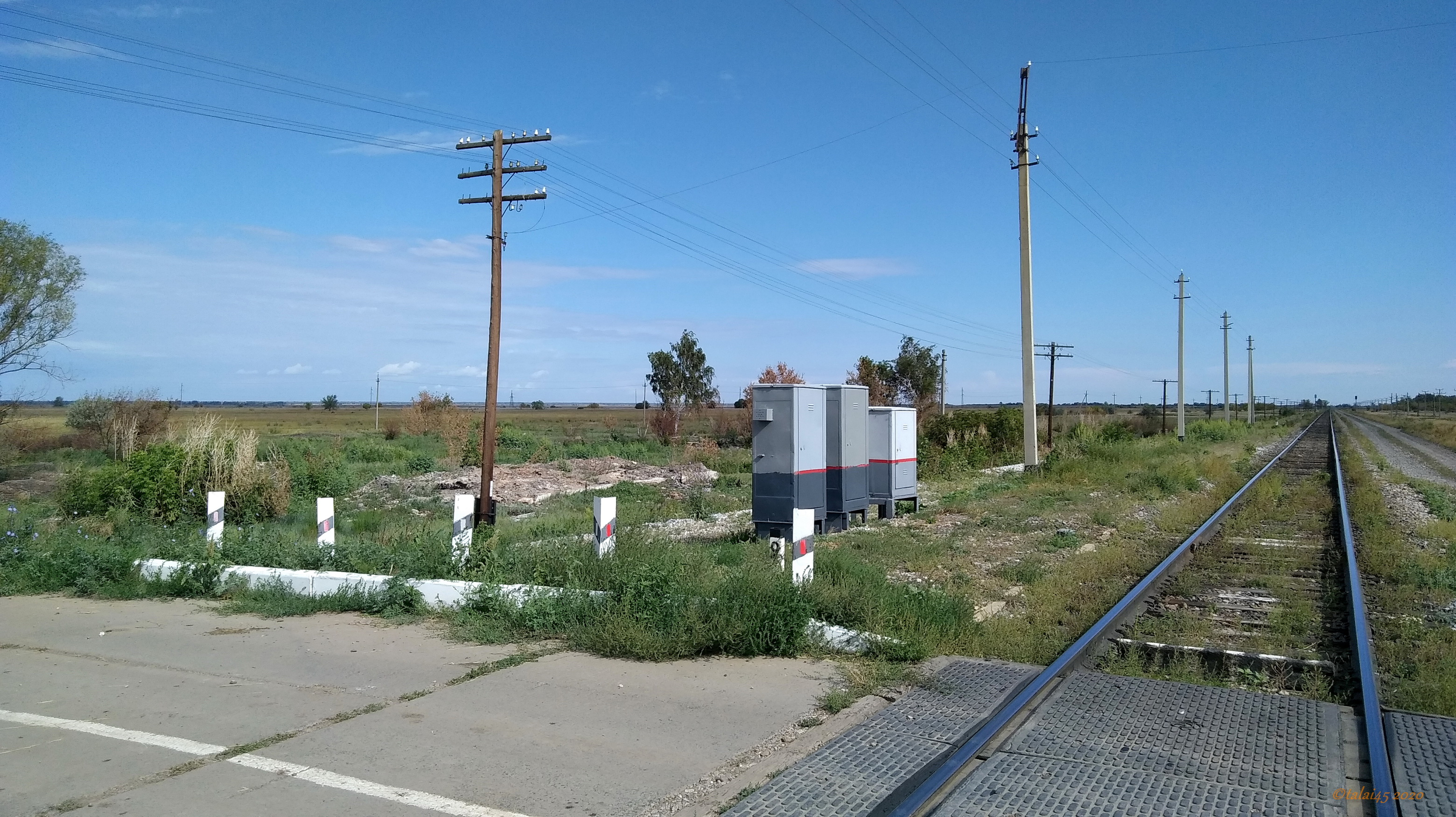 Железнодорожная Казарма 498 км